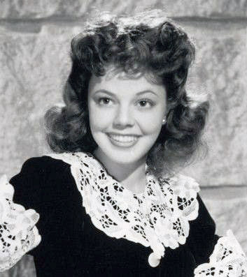 Jean Porter in Thrill of a Romance - publicity stil (cropped)